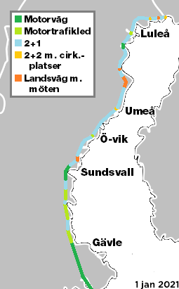 Sketch of projected road standards for E4 north of Gavle, Sweden, on January 1st 2021, as per Trafikverket plans July 1st 2016.